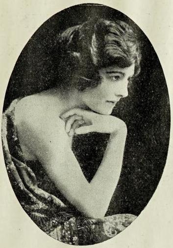 A young white woman with dark hair, with a bare shoulder; she is seated, and has her arm curled under her chin, elbow on leg.